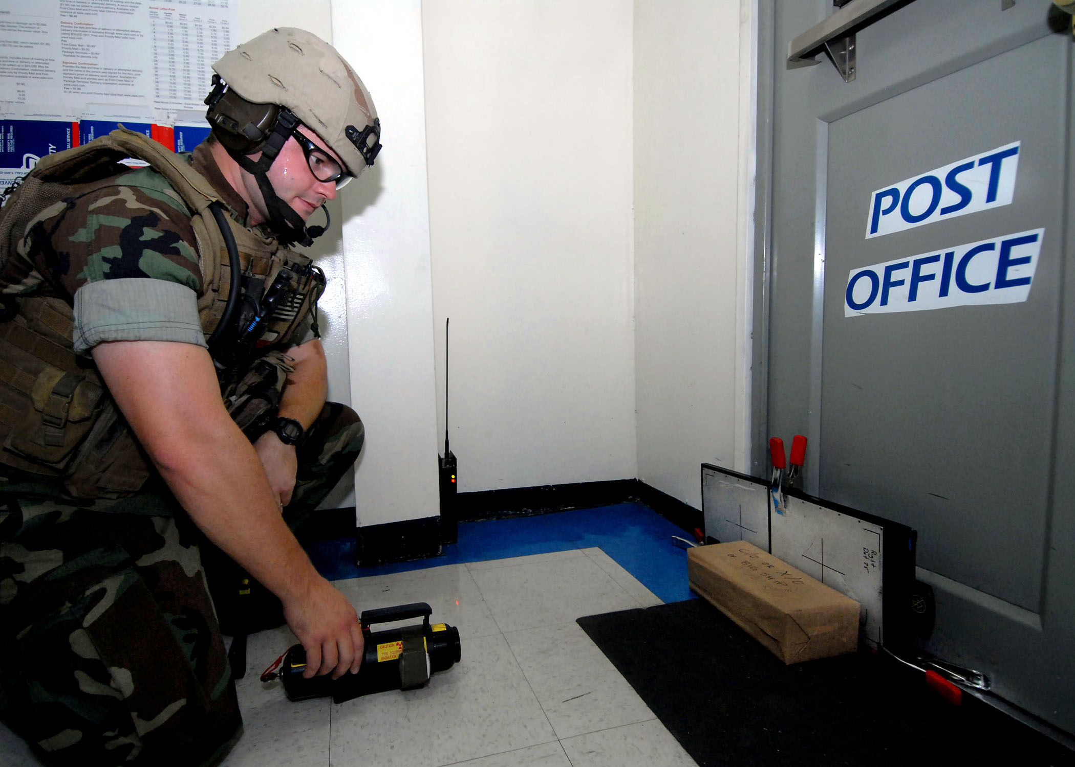 060927-N-0684R-009 Pacific Ocean (Sept. 27, 2006) - Explosive Ordnance Disposalman 2nd Class Gregory Van Ness uses a portable x-ray device on a suspicious package during a drill outside the post office aboard the nuclear-powered aircraft carrier USS John C. Stennis (CVN 74). Stennis and the embarked Carrier Air Wing Nine (CVW-9) are currently conducting its Composite Training Unit Exercise (COMPTUEX) off the coast of Southern California. U.S Navy photo by Mass Communication Specialist 3rd Class Ron Reeves (RELEASED)